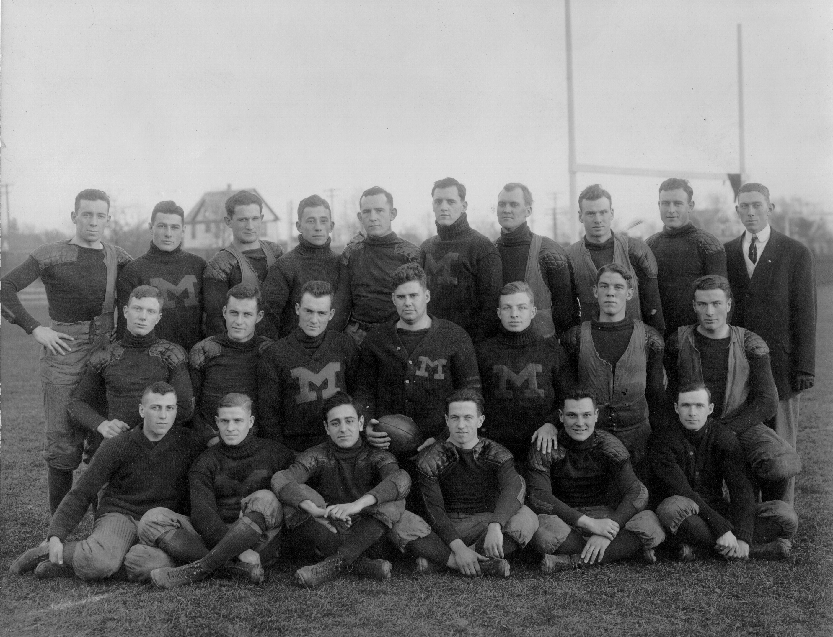 Photograph of 1910 Michigan football team first published in The Michigan Alumnus, December 1910, prior to page 105